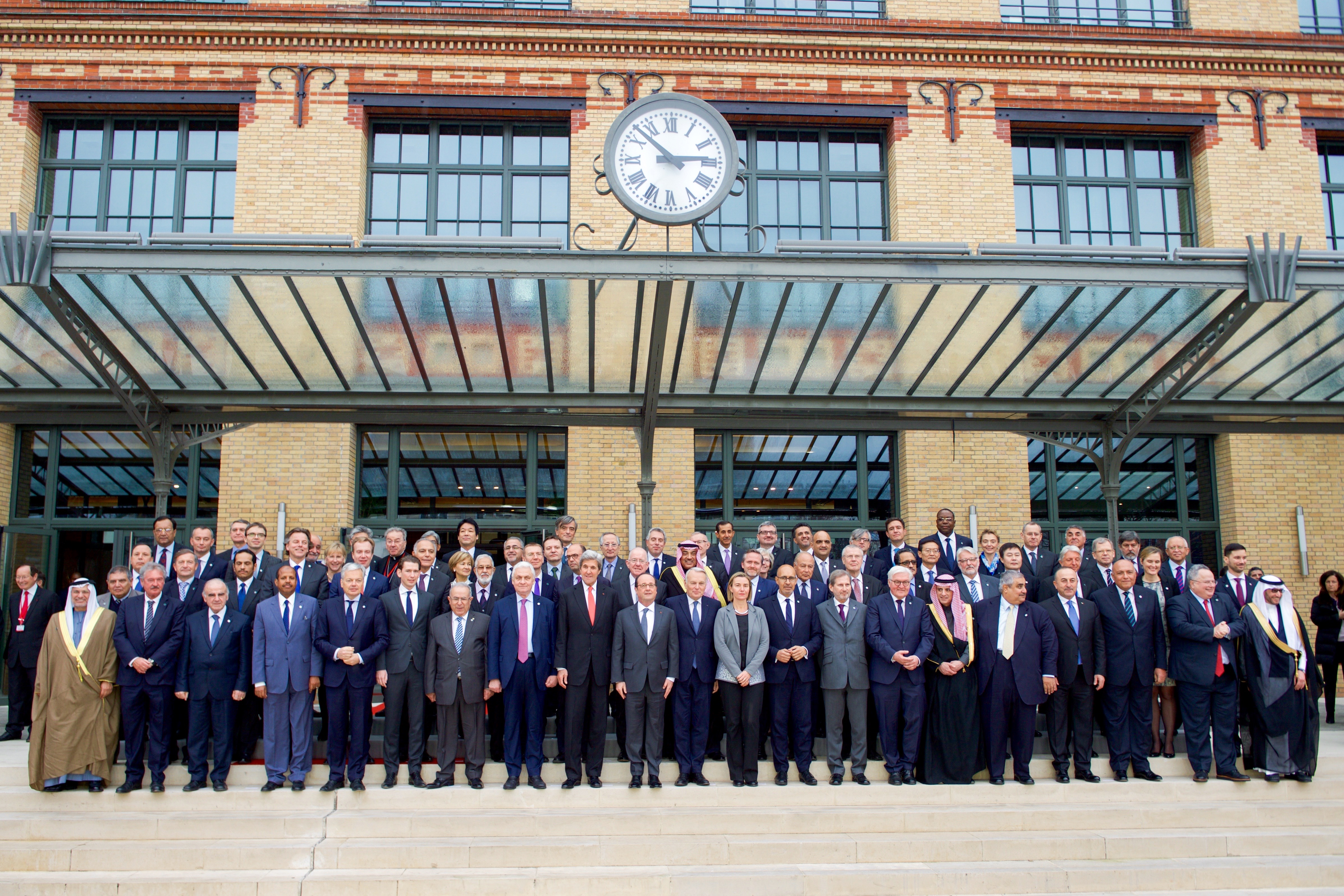 U.S. Secretary of State John Kerry stands with French President Francois Hollande and his counterparts on January 15, 2017, outside the Ministry of Foreign Affairs Conference Center in Paris, France, during a group photo at the outset of a French-hosted conference on Middle East peace. [State Department photo/ Public Domain]